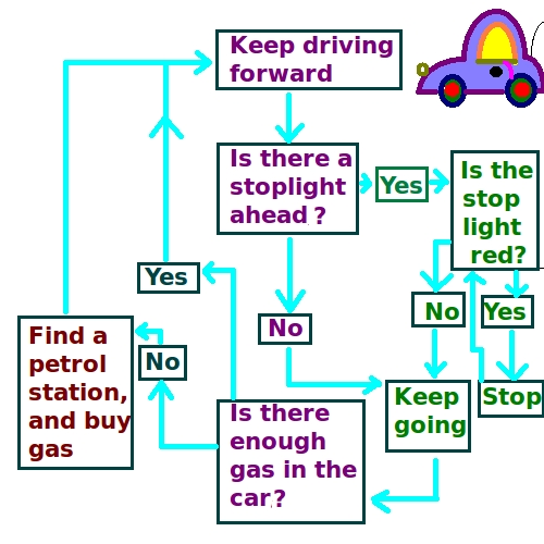 Driving across town to reach a specific goal can be modeled using a flowchart like this one. It is a constant mental process of adjustment; if a stoplight is red, one must stop; if gas is needed, the tank must be re-filled. The ideal situation is when a human is making intelligent adjustments based on reality while keeping the longer-term goal in view. Source of diagram: here (see public domain declaration at top). Questions: write me at my Wikipedia talk page or email me at